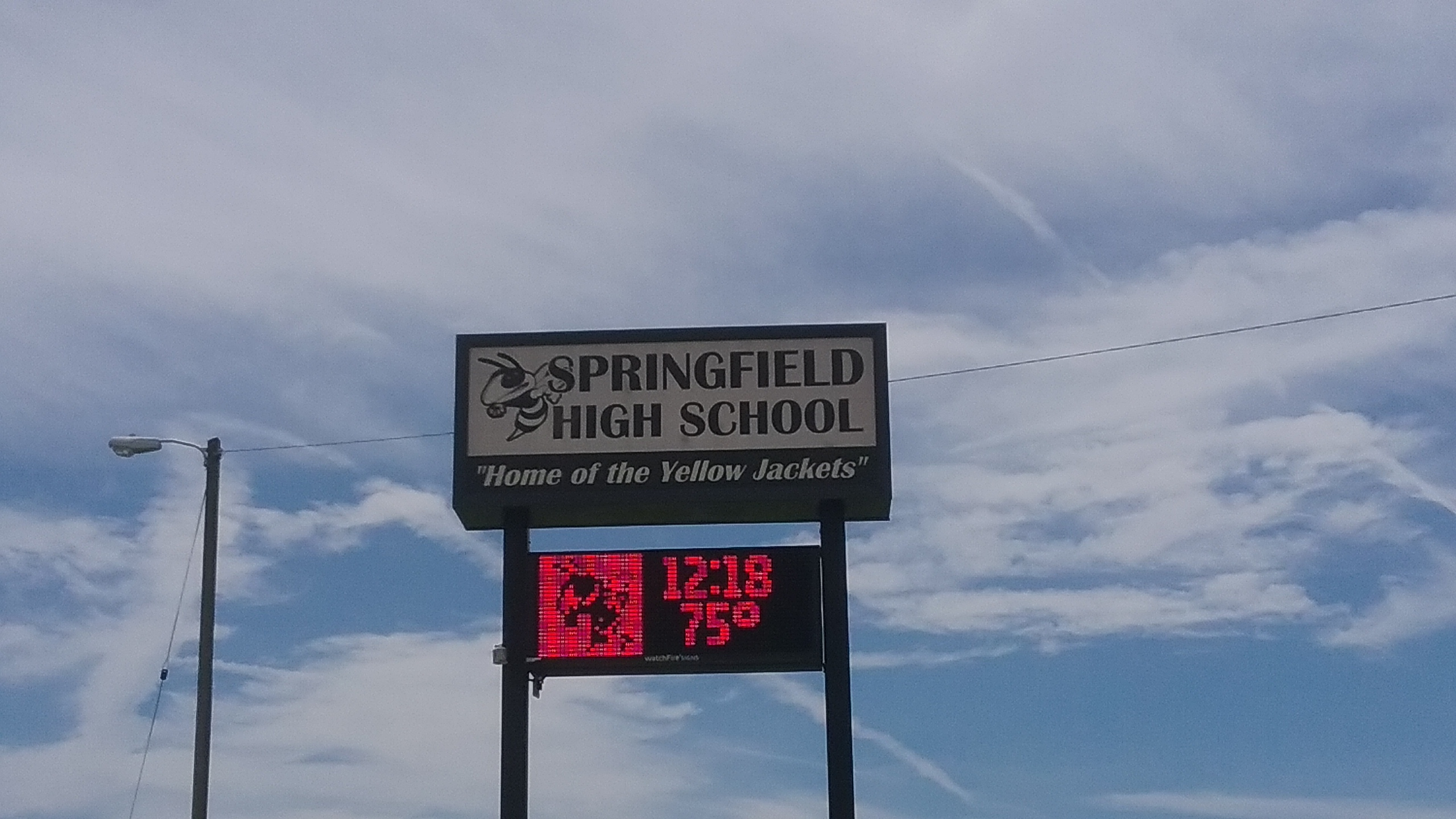 The image of the Springfield High School sign in Tennessee was taken on June 24, 2017